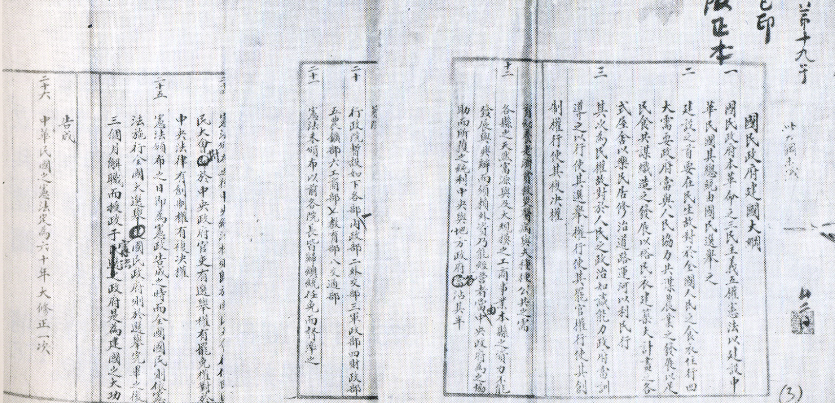 The script of Sun Yat-sen as the provisional constitution of China